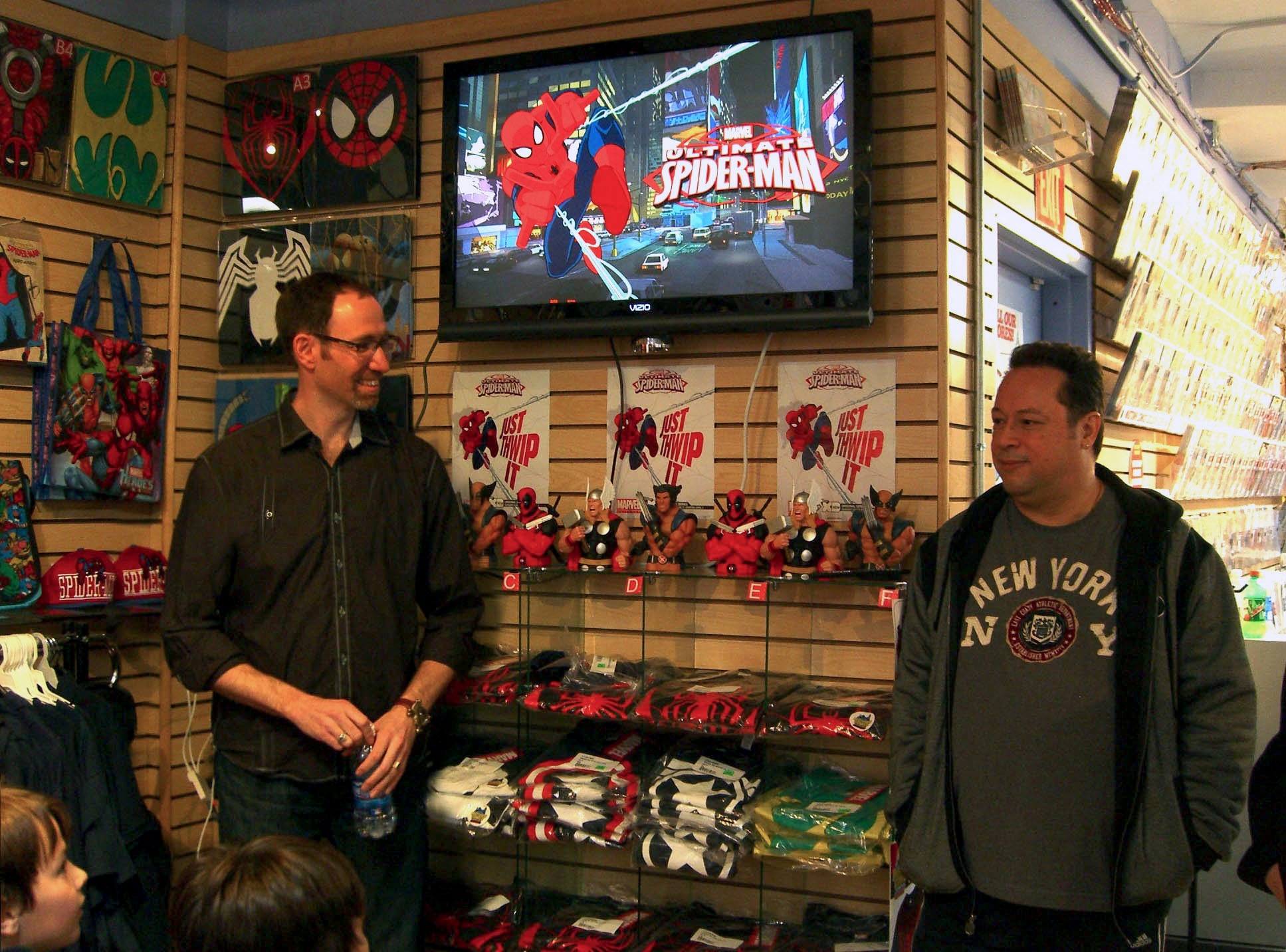 Writer/producer Joe Kelly and Marvel Comics Chief Creative Officer Joe Quesada, two of the creators who worked on the Disney XD animated TV series Ultimate Spider-Man, prepare to screen a sneak preview of Part 1 of that series' pilot episode to a small group of fans at Midtown Comics Downtown in Manhattan, on March 31, 2012, the day before the series' broadcast TV debut. This photo was created by Luigi Novi. It is not in the public domain, and use of this file outside of the licensing terms is a copyright violation.